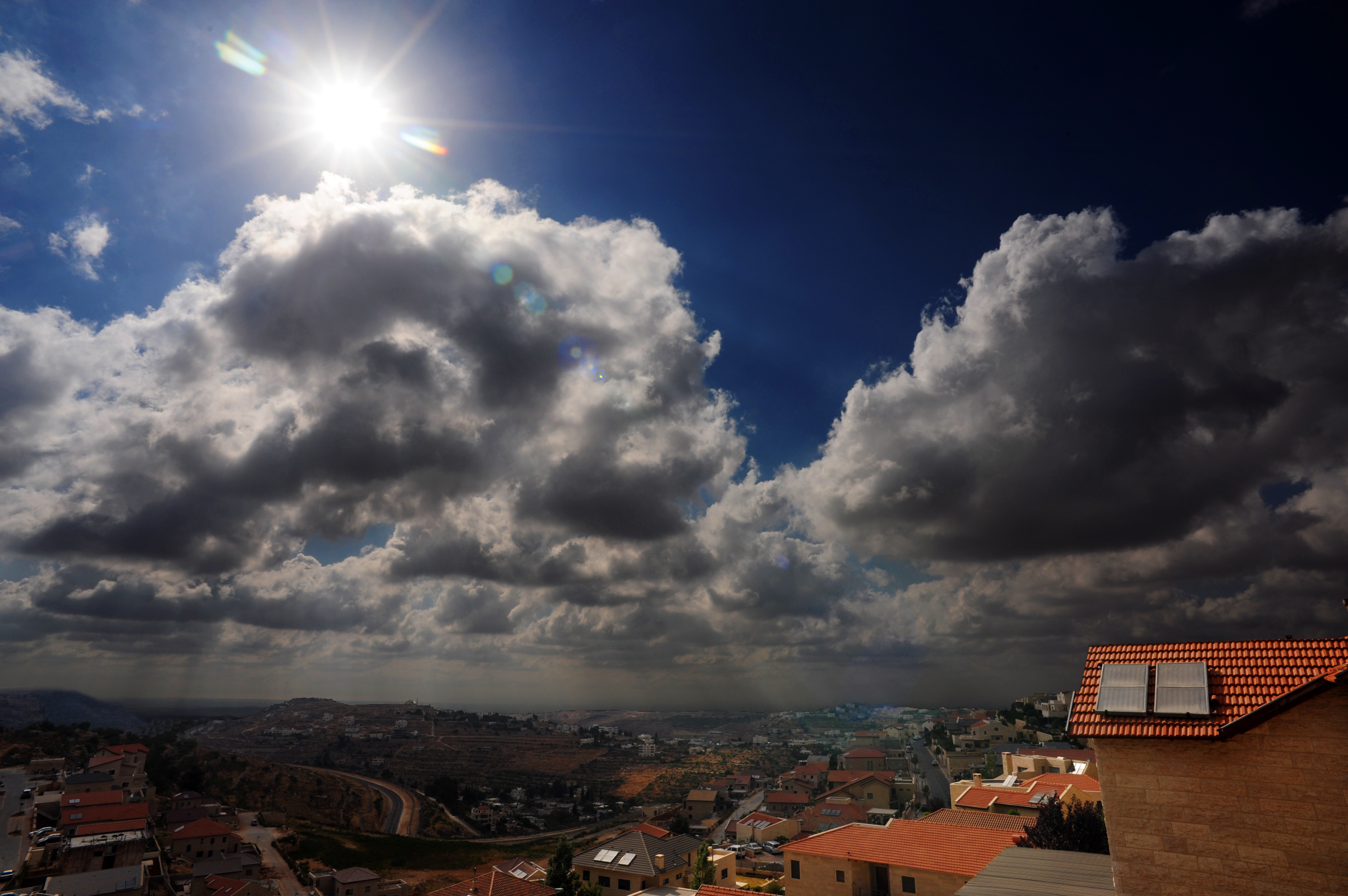 View from Har Adar home of the border fence and Qattana just across. On a clear day, one can see Tel Aviv toward the right of the frame.